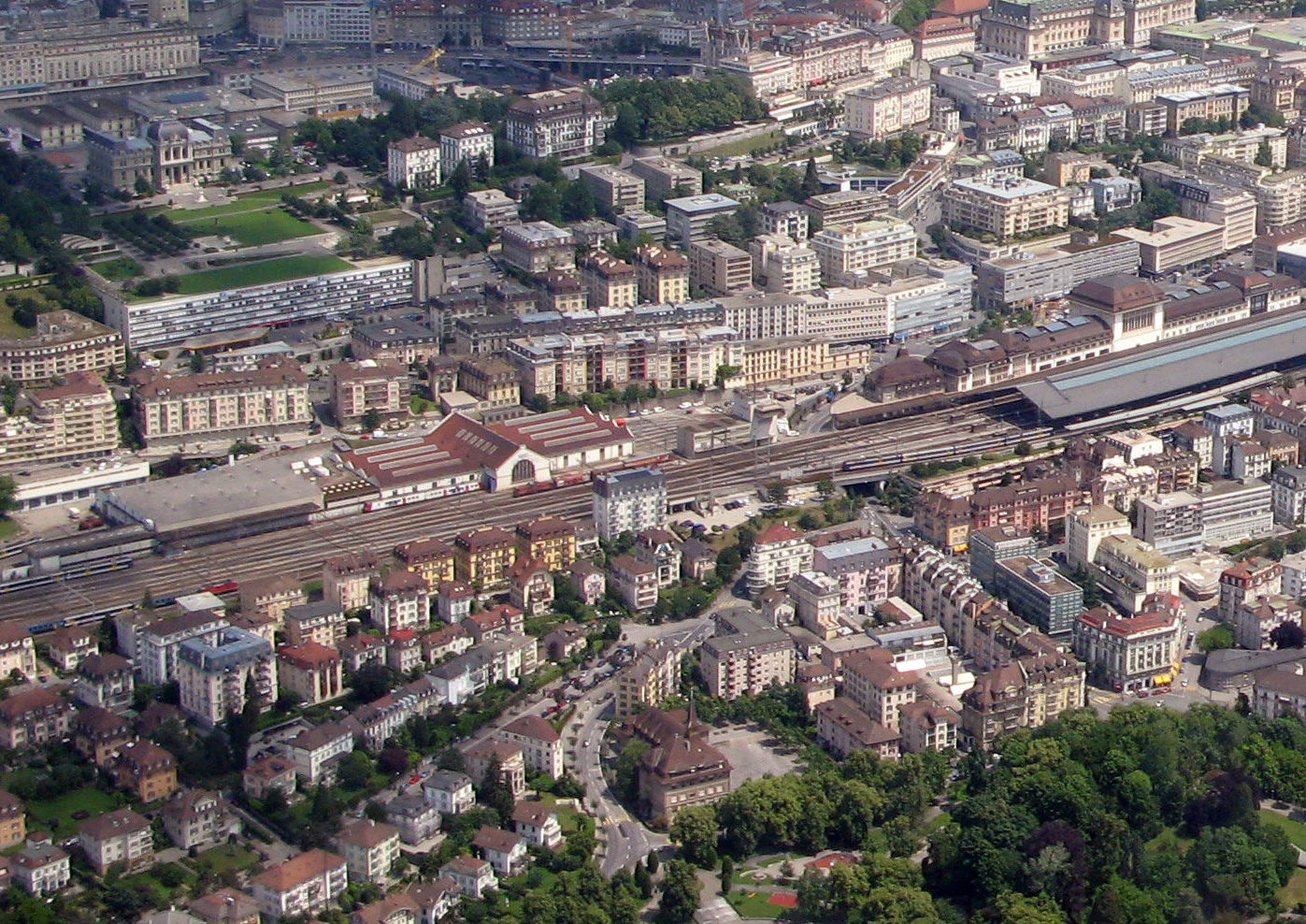 Aerial view of the city of Lausanne.